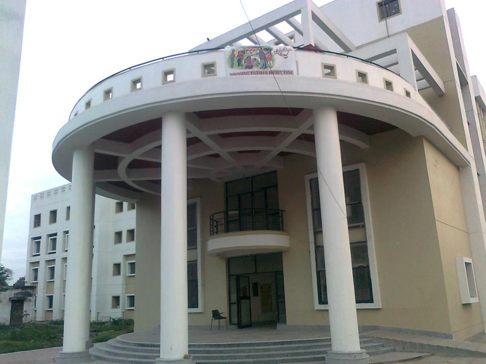 The new campus